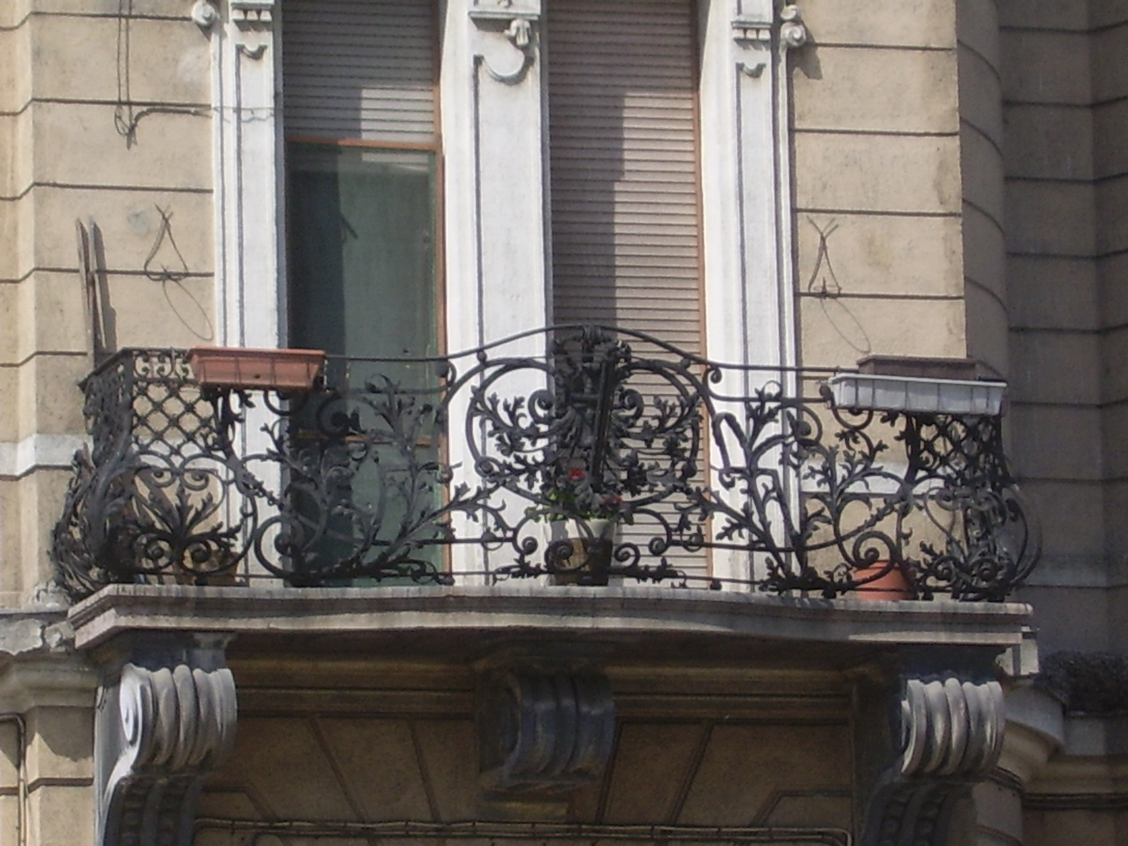 Detail of Tóth-palota in Szeged